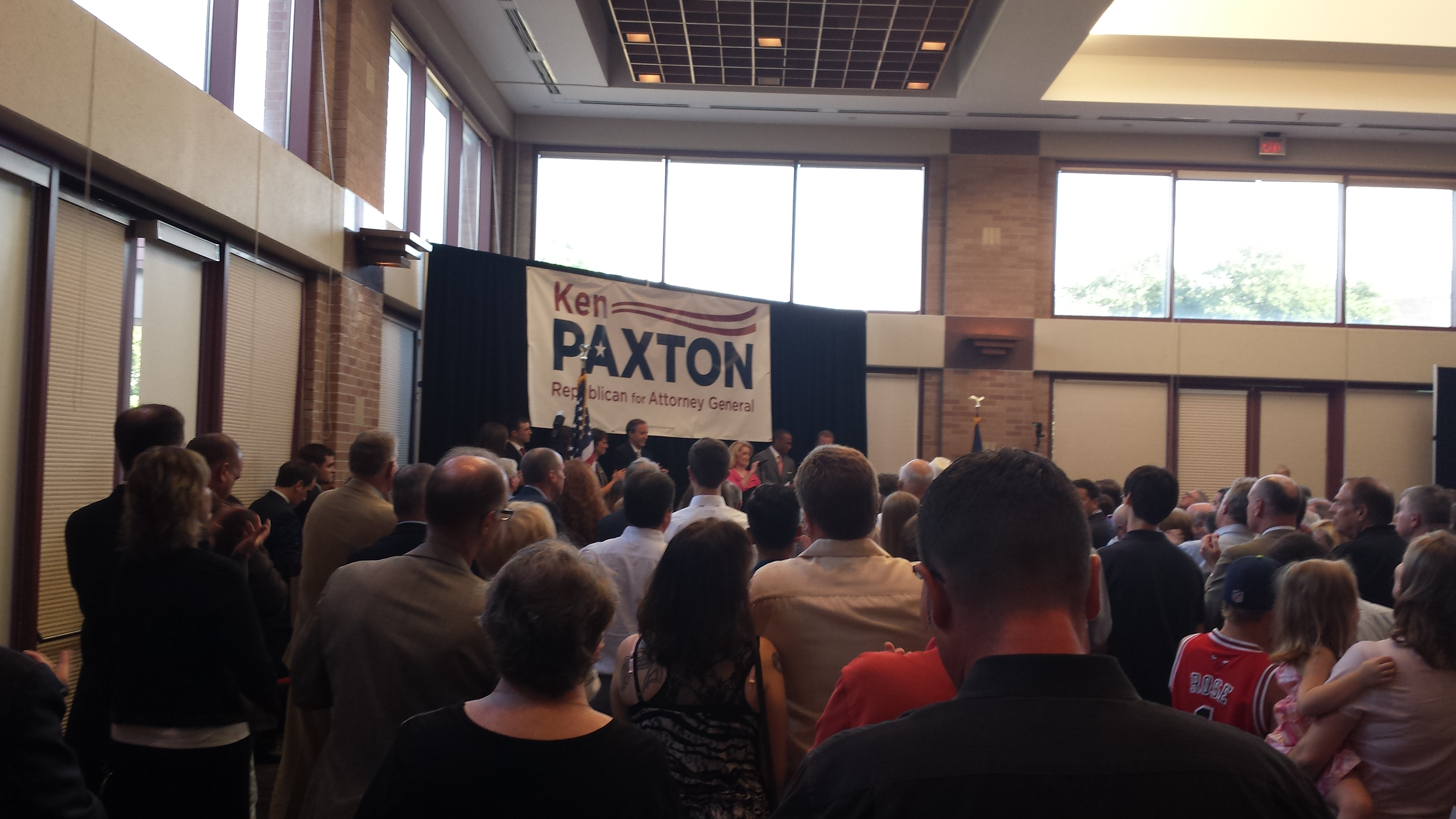 ' Photo is Licensed under a creative commons share-alike. Use freely but give attribution and link to Alice Linahan, Voices Empower